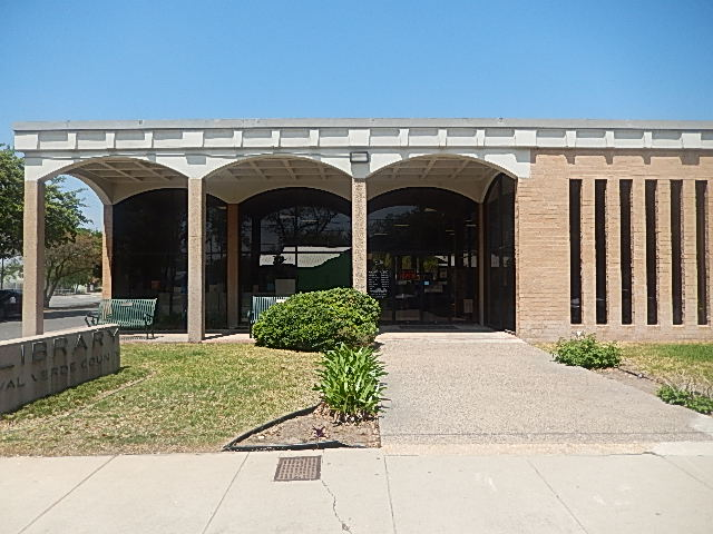 I took photo with Nikon camera of Val Verde County Library in Del Rio, TX.